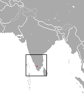 Day's Shrew (Suncus dayi) range